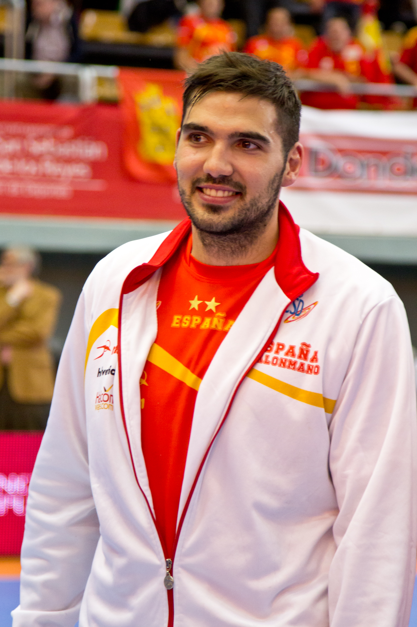 Spain Handball All Star Game 2013, held in San Sebastián de los Reyes, Madrid, Spain.